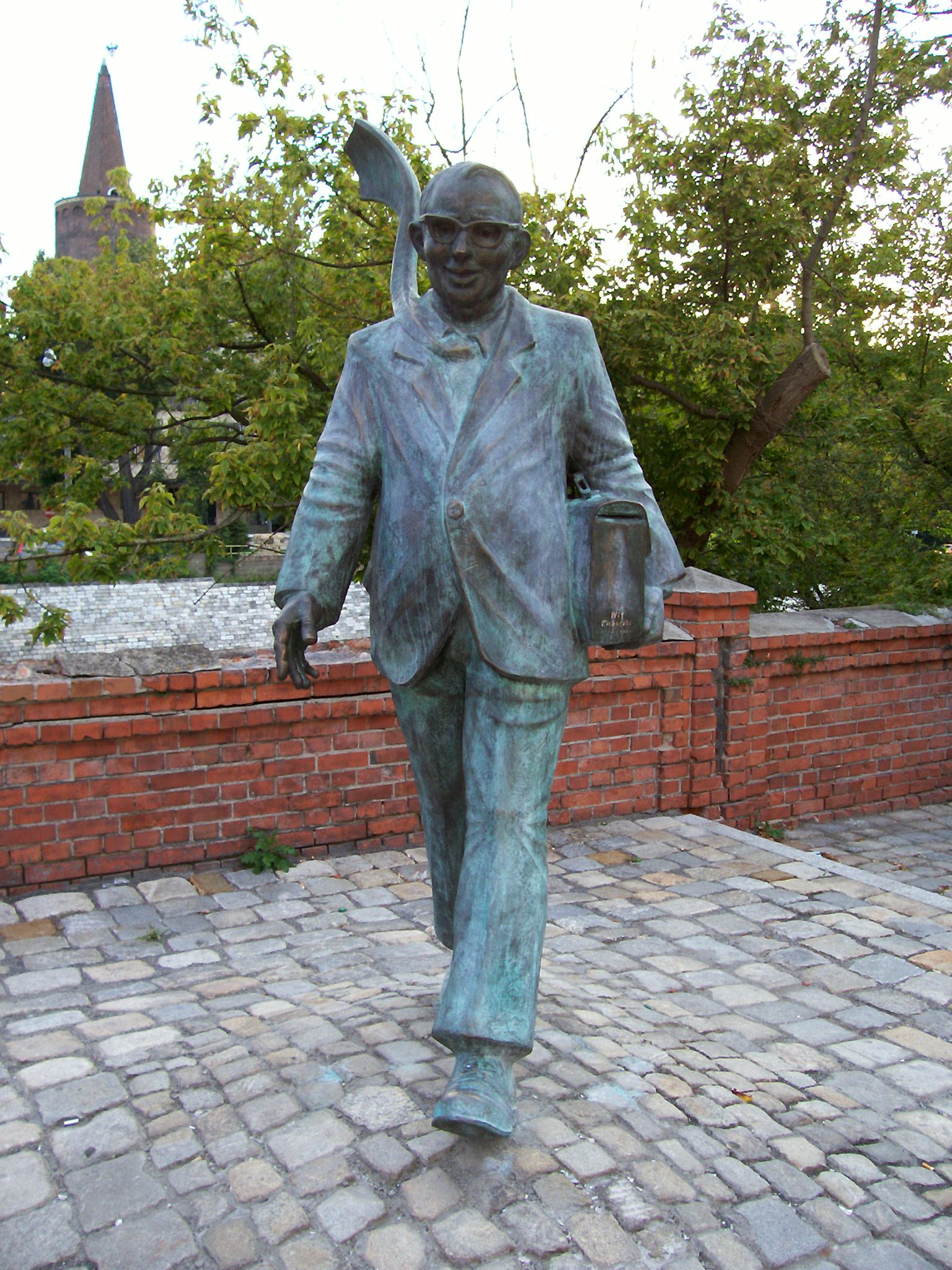 The monument of Karol Musioł (the mayor of Opole in 1953-1965) in Opole, Poland.